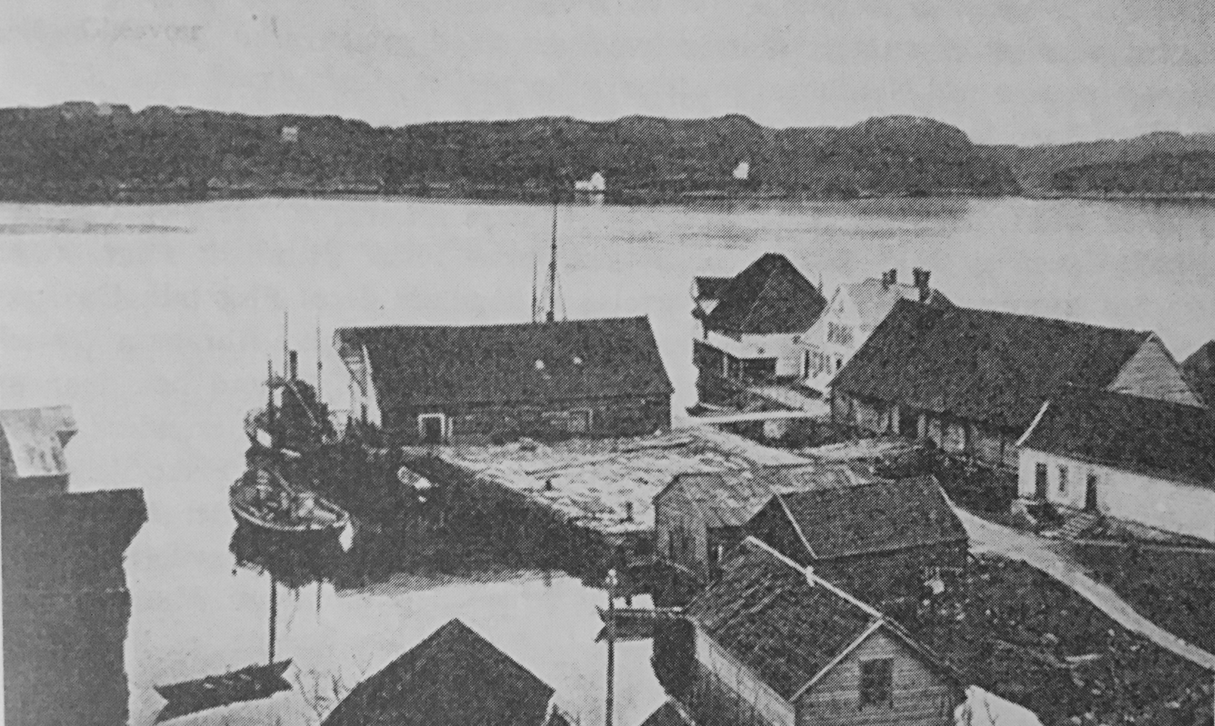 Glesvær 1908